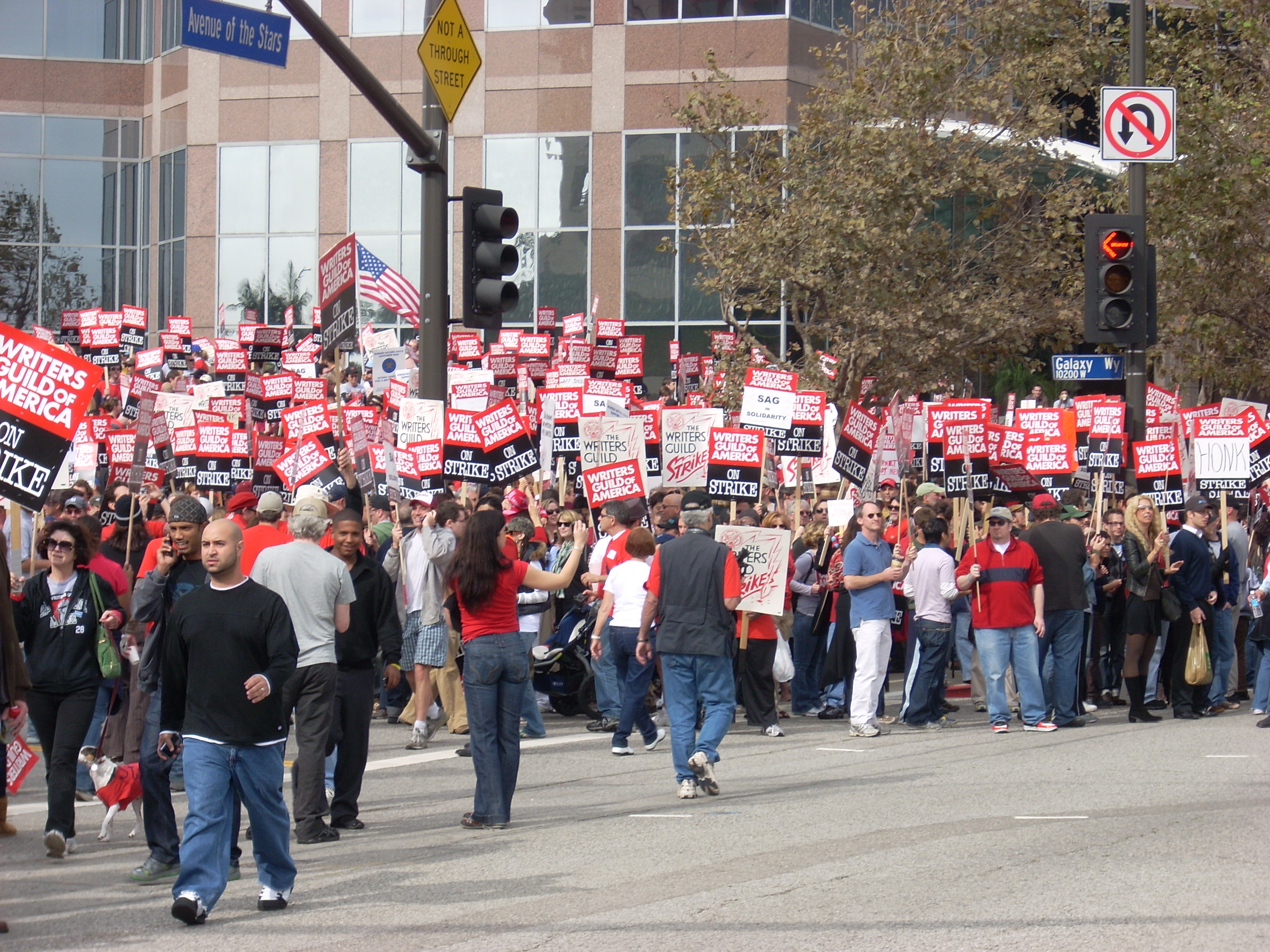 Striking WGA members in Century City, Los Angeles, California on Nov. 7, 2007. 2007 Writers Guild of America strike.